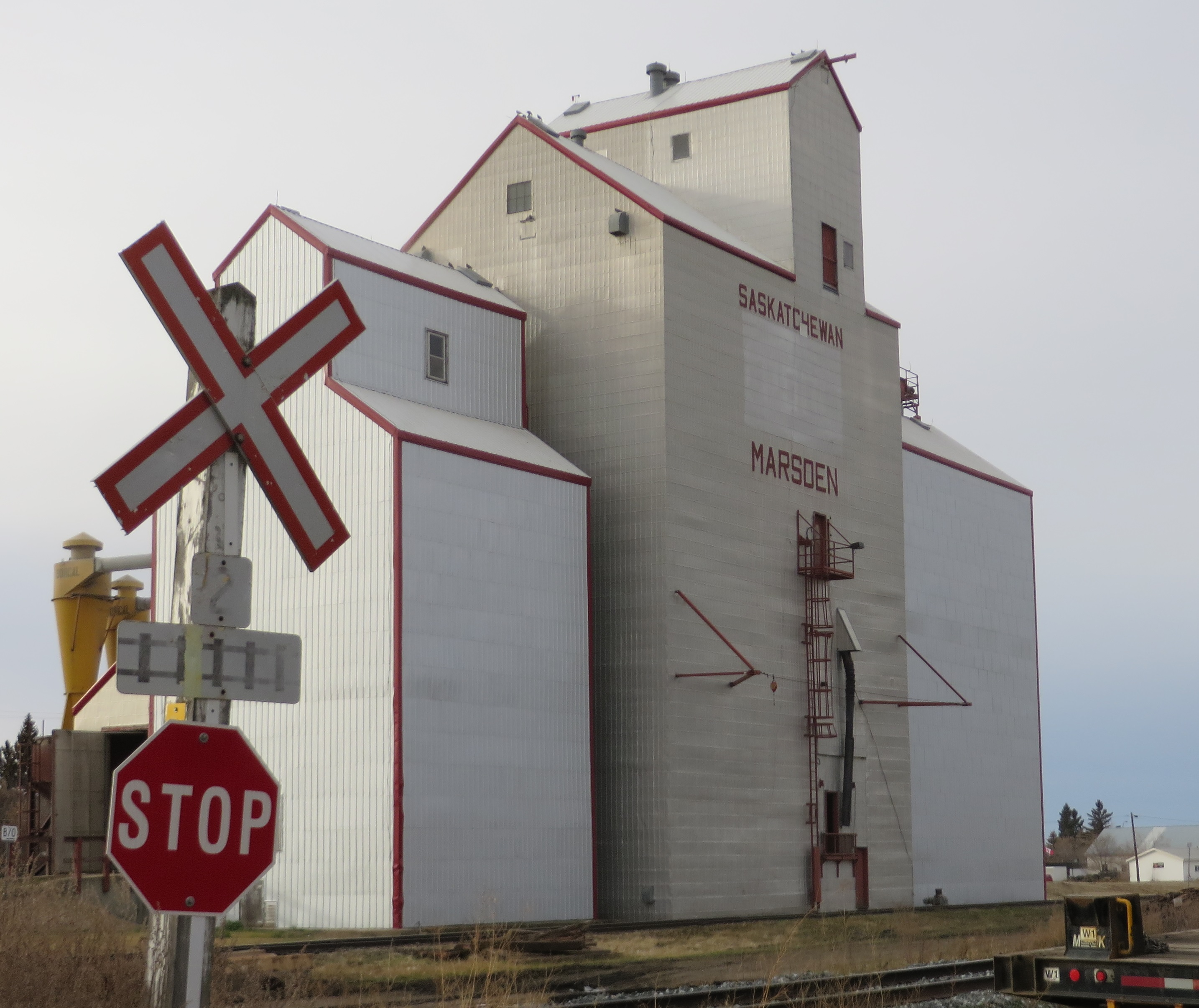 Grain elevator in Marsden, Saskatchewan, Canada